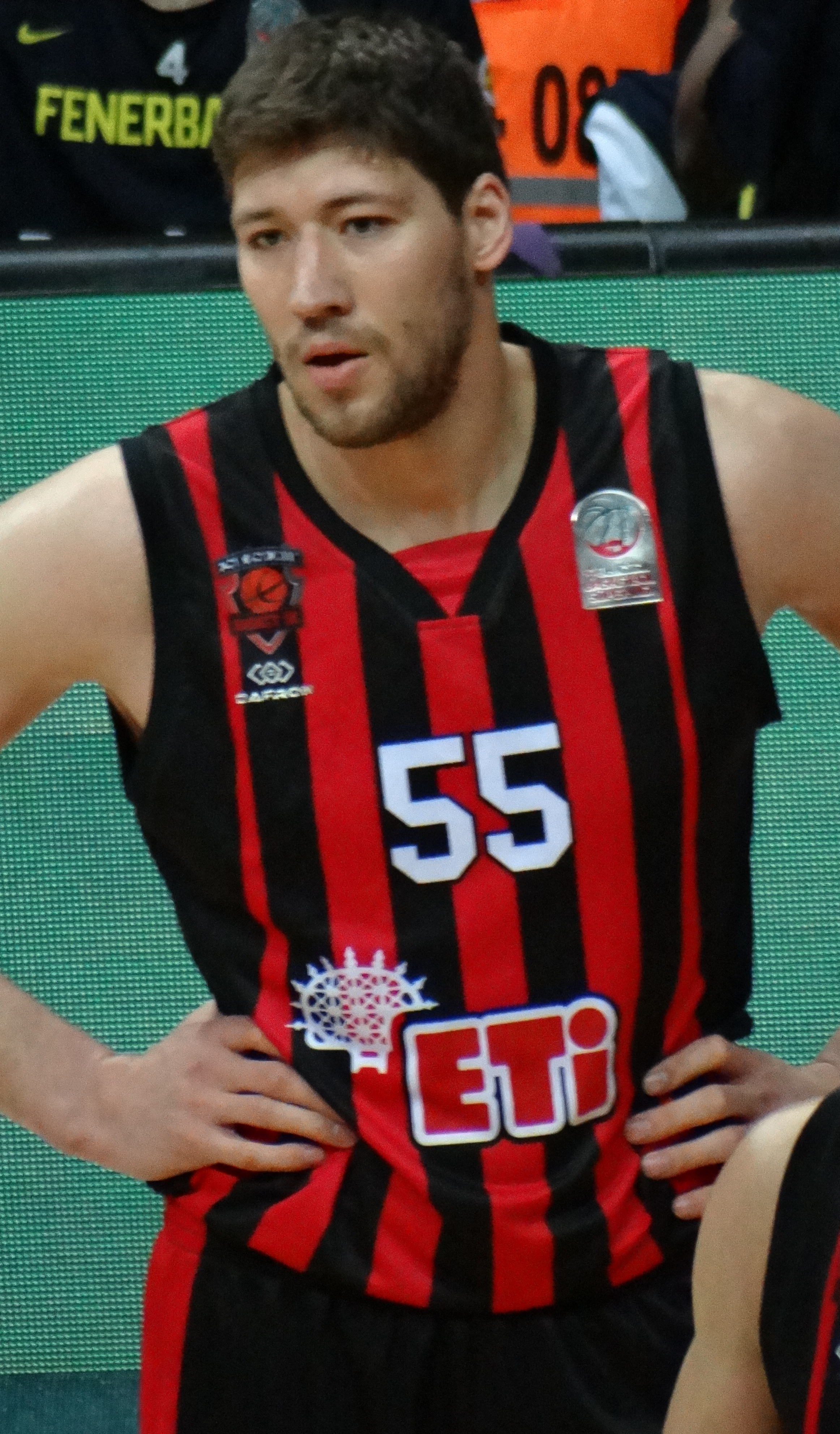 Viacheslav Kravtsov 55 Eskişehir Basket TSL 20180325